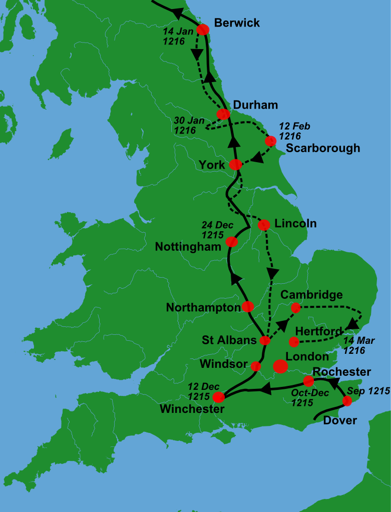 A blank locator map for Great Britain, with King John's 1216-6 military campaigns superimposed on it (using information from Warren, "King John", p.250. The idea is to superimpose Image:dot4gb.svg at the appropriate point. See Template:GBthumb for code to do this. These two images can replace any locator map posted by Lupin - see Special:Contributions/LupinBot. This is a vectorized version of Image:Gb4dot.png, with the scale changed from 200 km to 150 km/150 miles. The shoreline data come from the file gshhs_h.b from the GSHHS, and the rivers and the Irish border come from the CIA World DataBank II; both sources are in the public domain. Mercator projection. ==